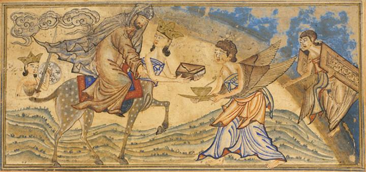 This illustration is in a folio. The Mi'raj (also called the "Night Ride") of Mohammed on Buraq. This painting is from the book Jami' al-Tawarikh (literally "Compendium of Chronicles" but often referred to as The Universal History or History of the World), by Rashid al-Din, published in Tabriz, Persia, 1307 A.D.